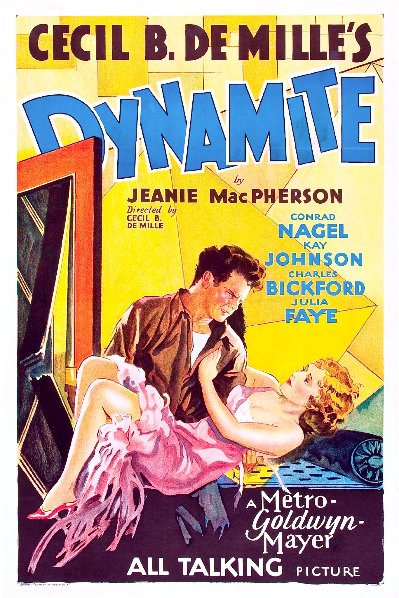 Poster for the 1929 film Dynamite. The item has no copyright markings on it as can be seen in the links above. At lower left is Sound and Country of origin USA. At lower right are some numbers which appear to pertain to the printing of the poster.